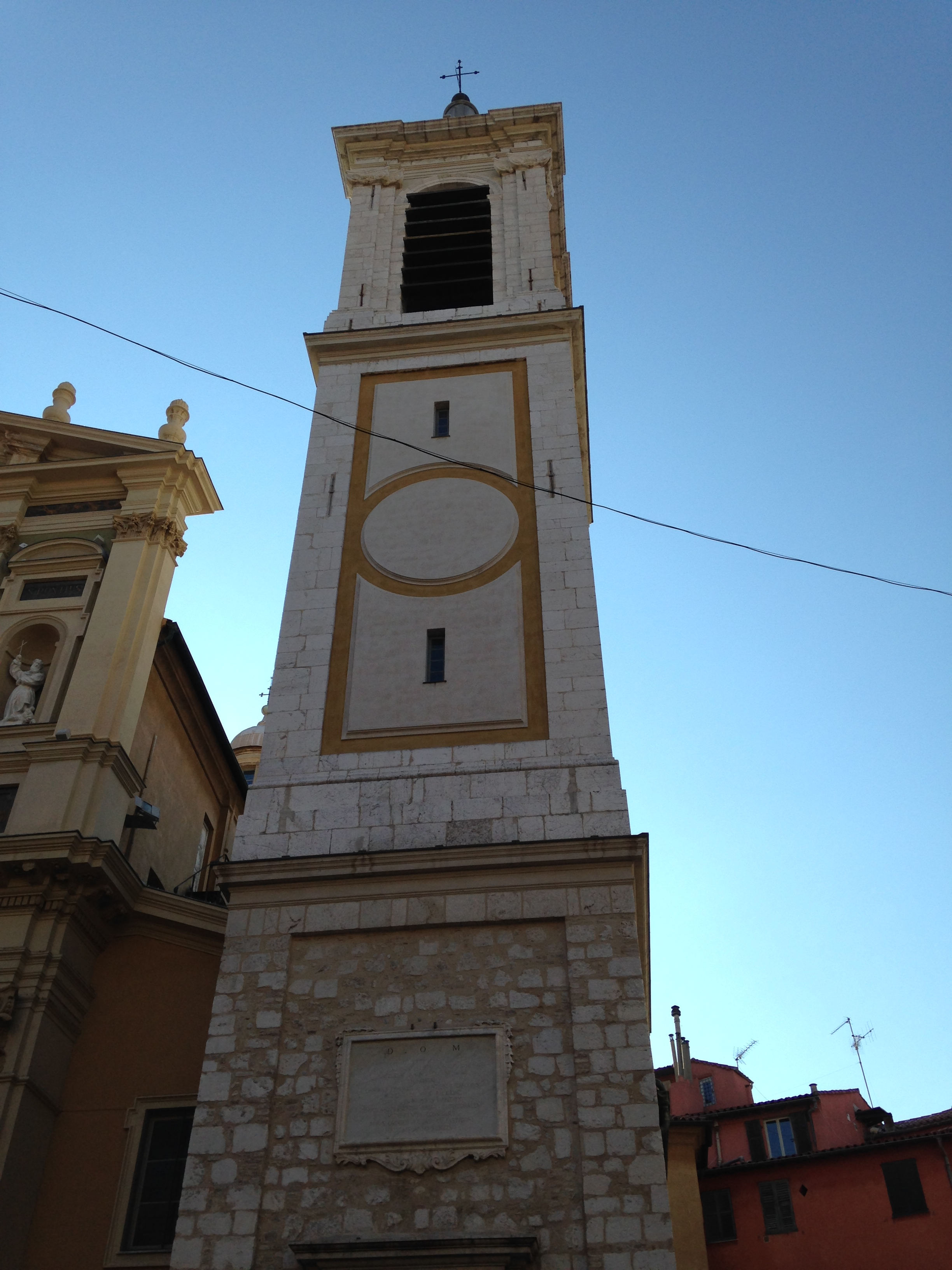 Photo taken of the bell tower in the spring of 2014